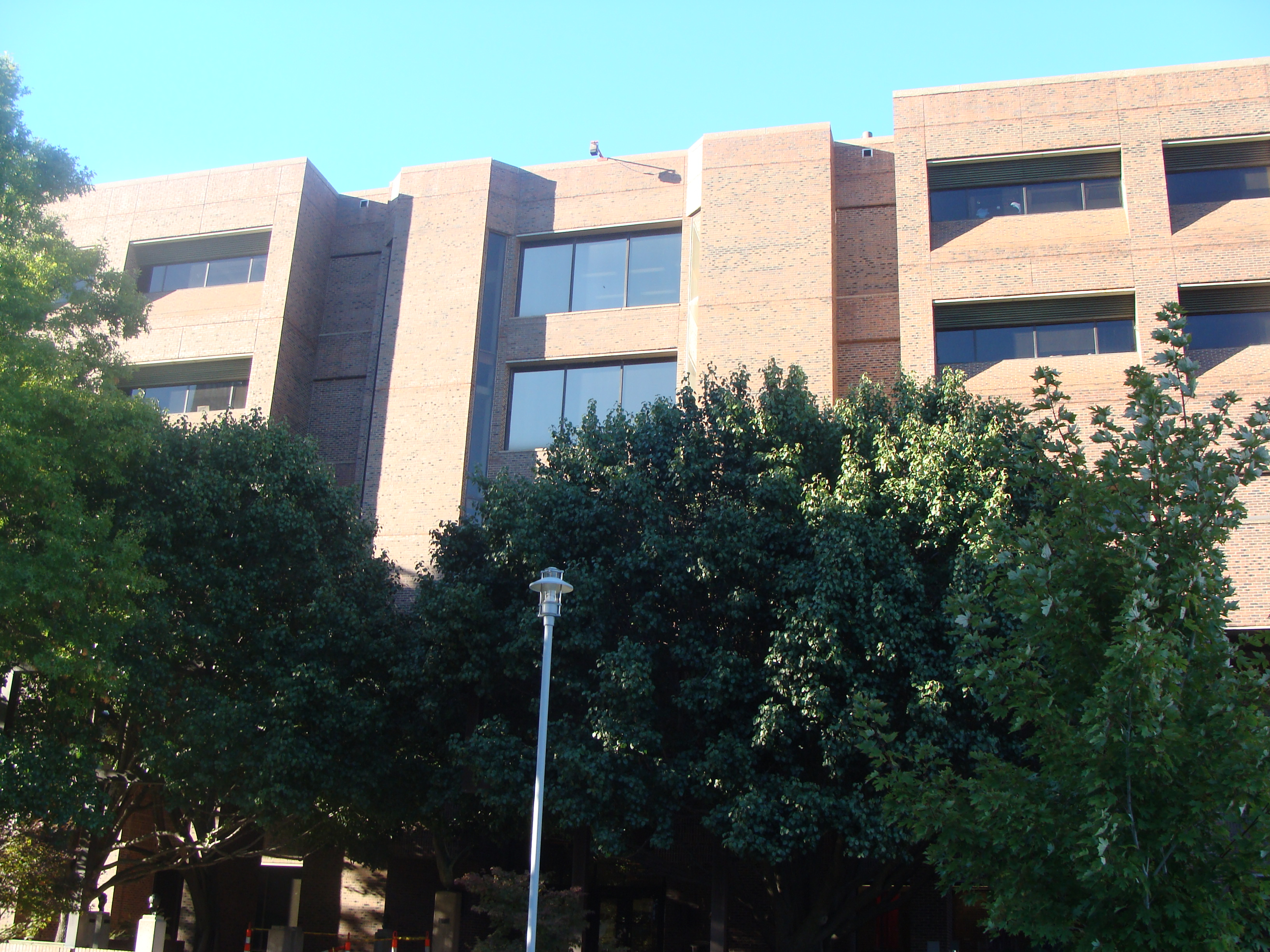 UMKC School Of Medicine. Health Sciences Library.